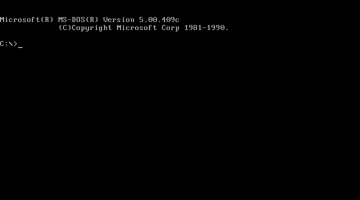 MS-DOS 5 Beta